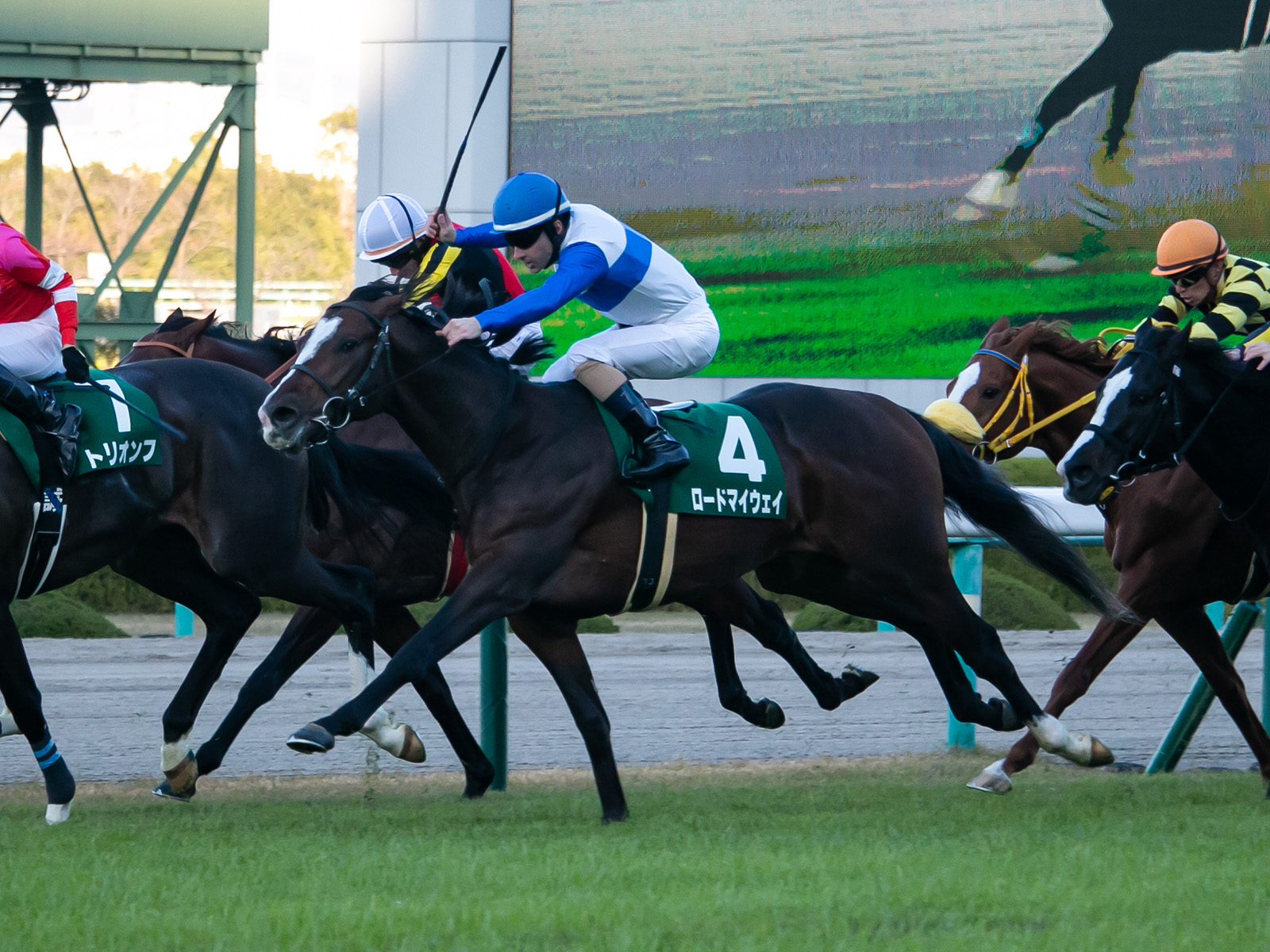 Lord My Way(JPN), Racehorse of Japan.